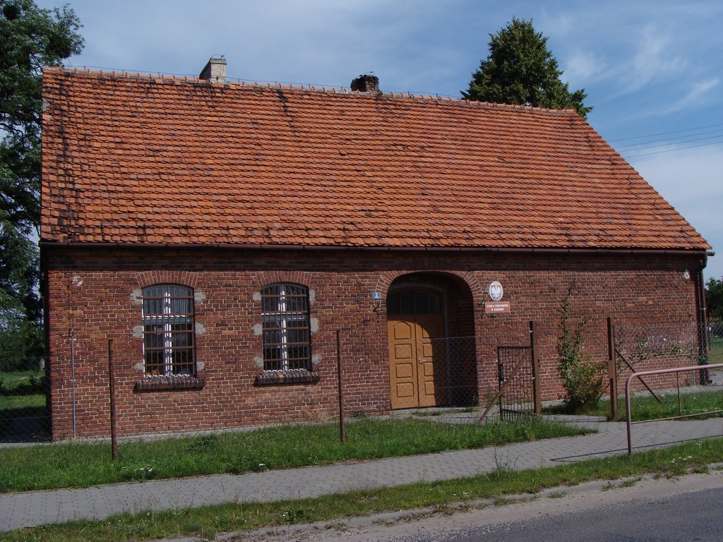 Dąbrowa, Manor house from XIX Century, now: old building of school.